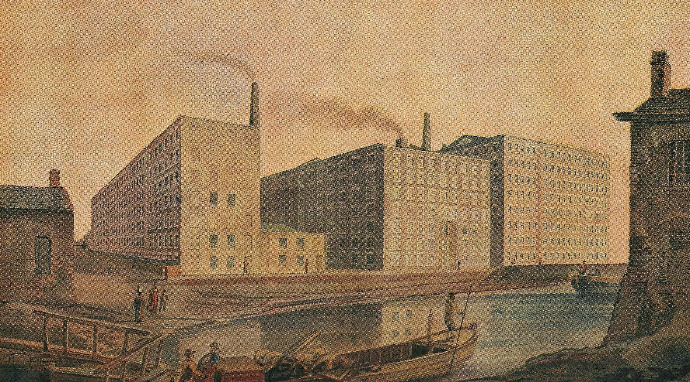 Ancoats, Manchester. McConnel & Company's mills, about 1820. From an old water-colour drawing of the period.